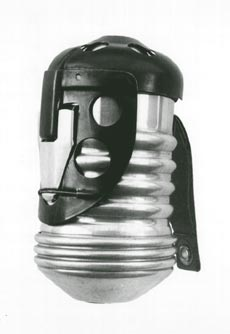 Italian WW2 era hand grenade